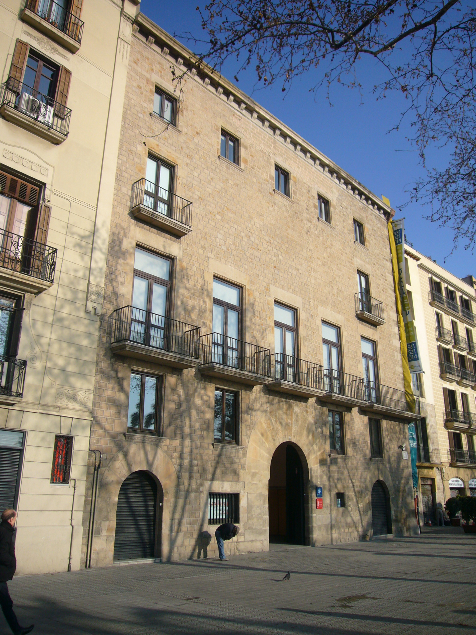 SGAE al passeig de Colom